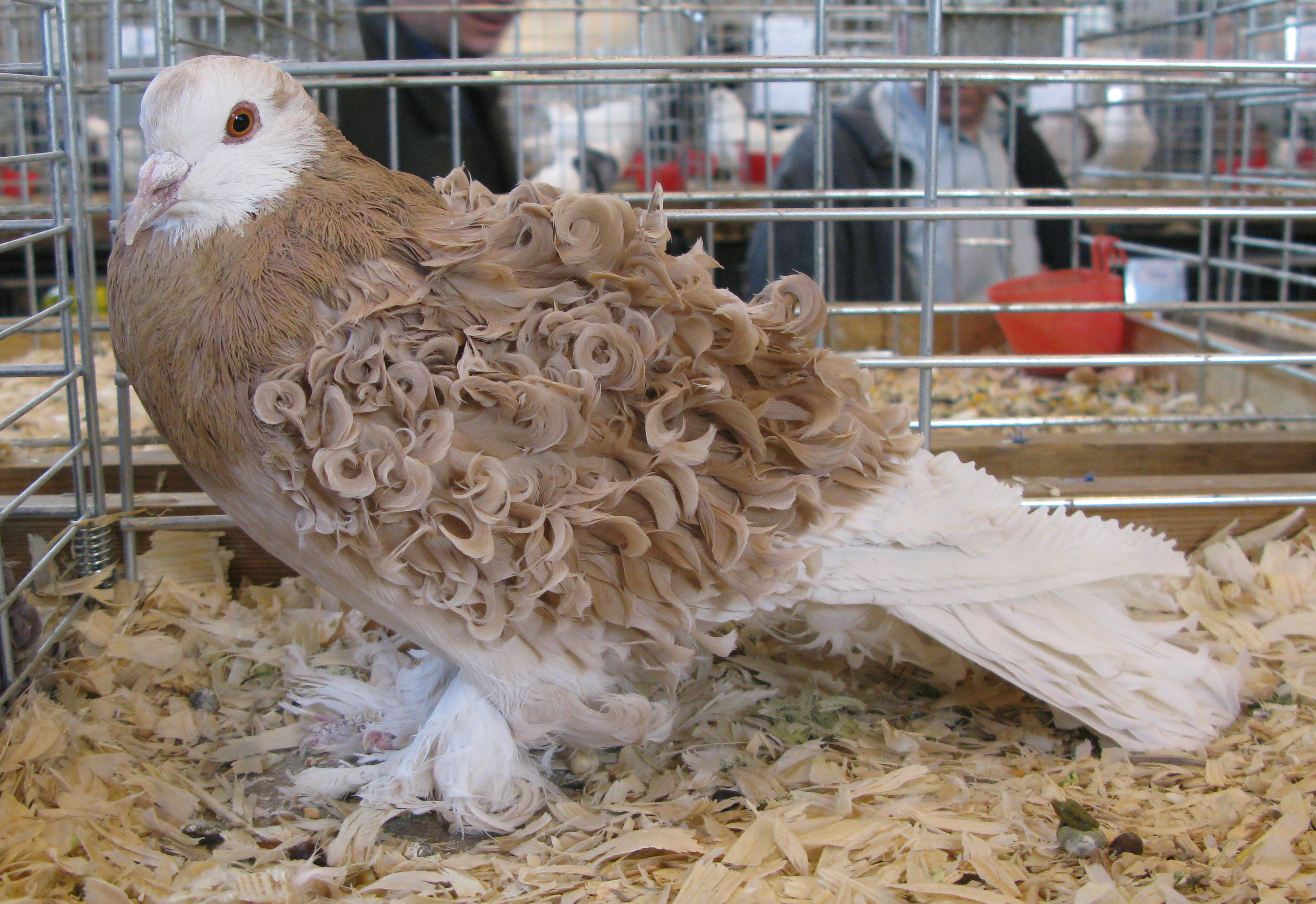 Fancy pigeon (columba livia), yellow Frillback breed, at Paris International Agricultural Show. Frillback Pigeon